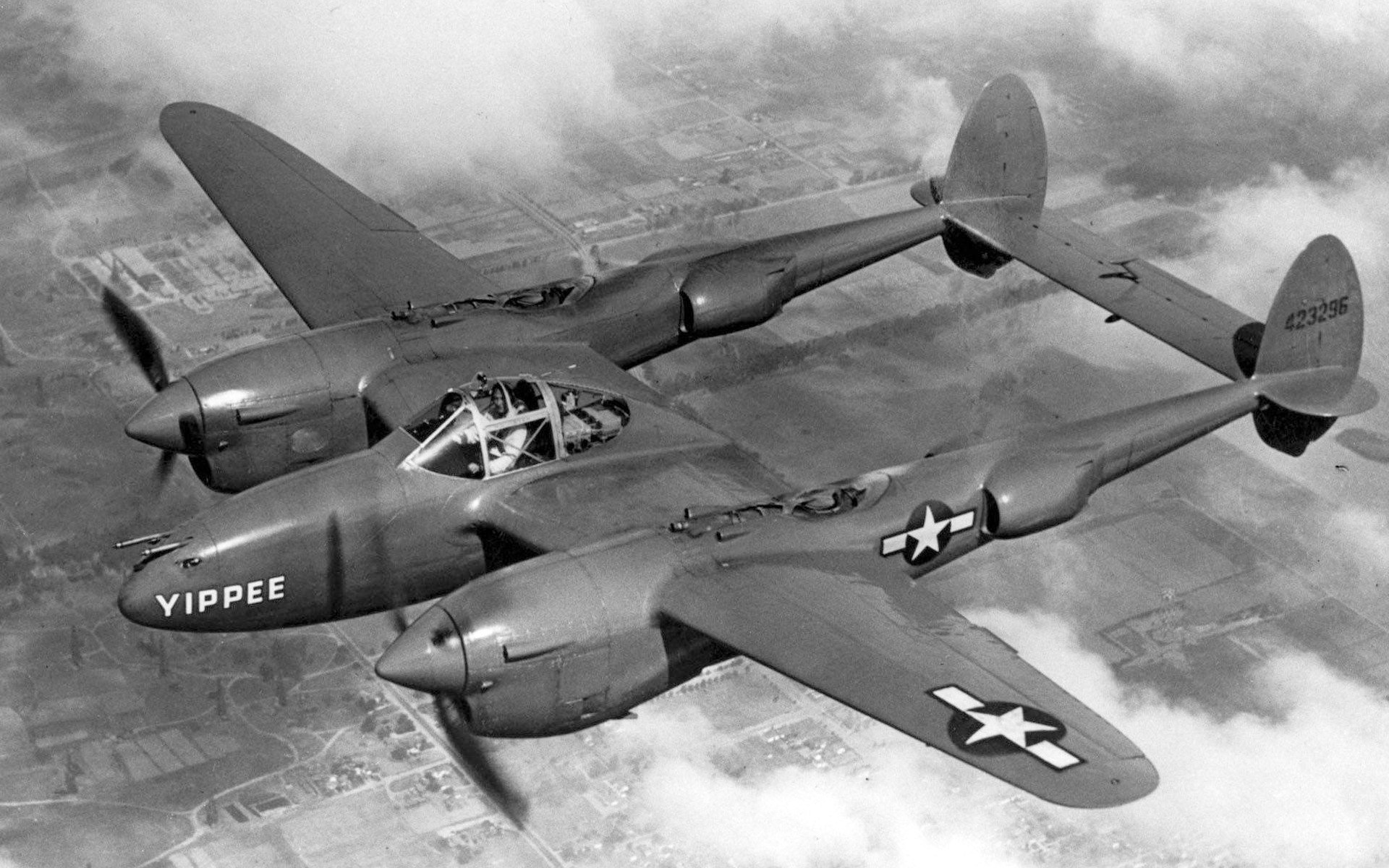 Lockheed P-38J-20-LO Lightning airplane "Yippee" permission=Believed to be in the public domain, as it was taken from a US Air Force web site and is labeled as being from the "USAF Museum Photo Archive".